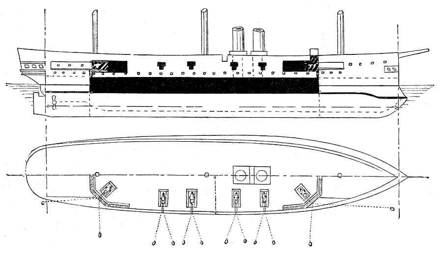 Plan and right elevation diagrams of British Nelson class cruiser.